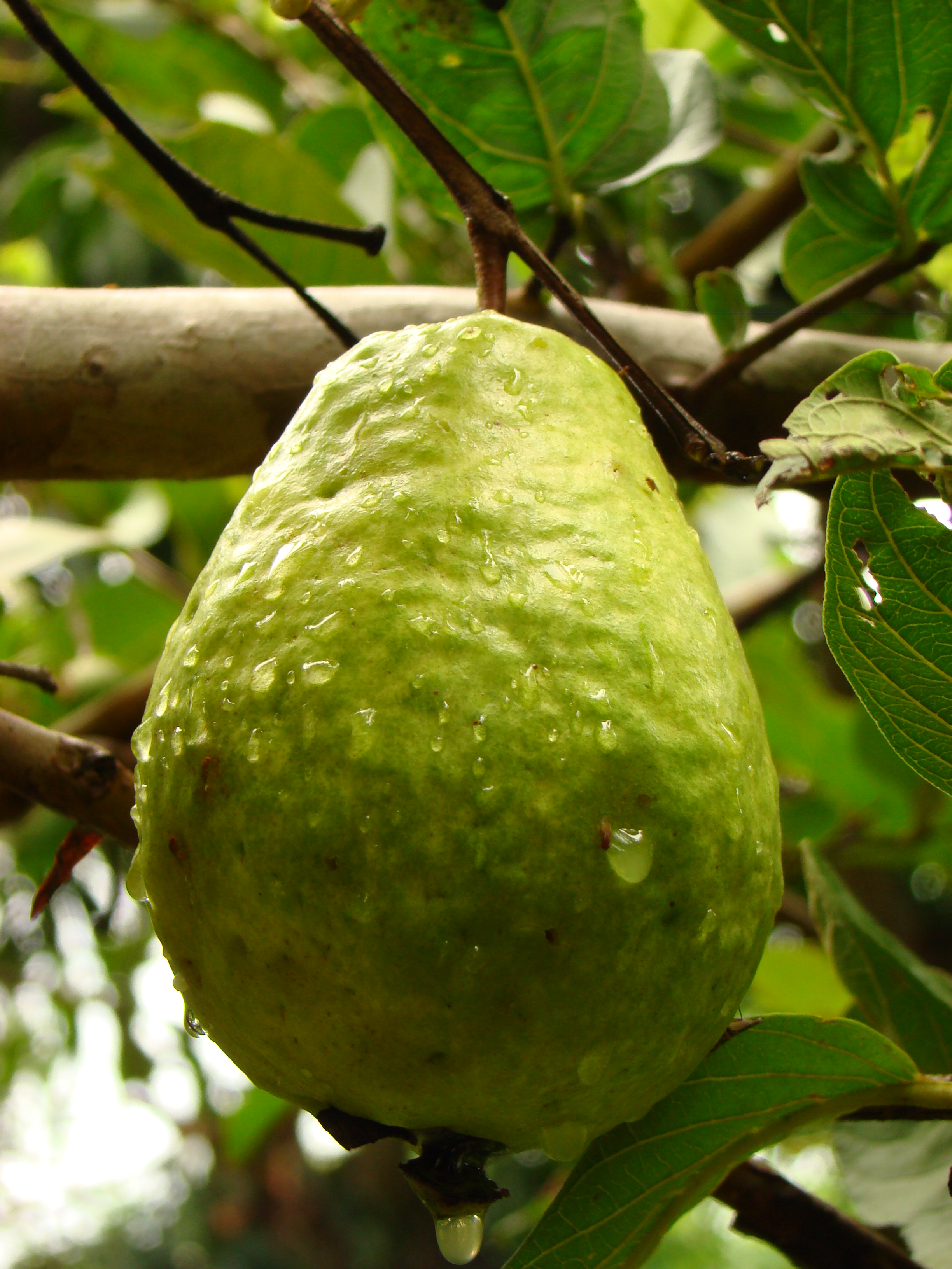 'Vietnamese Giant' Guava (Psidium guajava / Myrtaceae) tree at the Kampong, Coconut Grove, Florida.